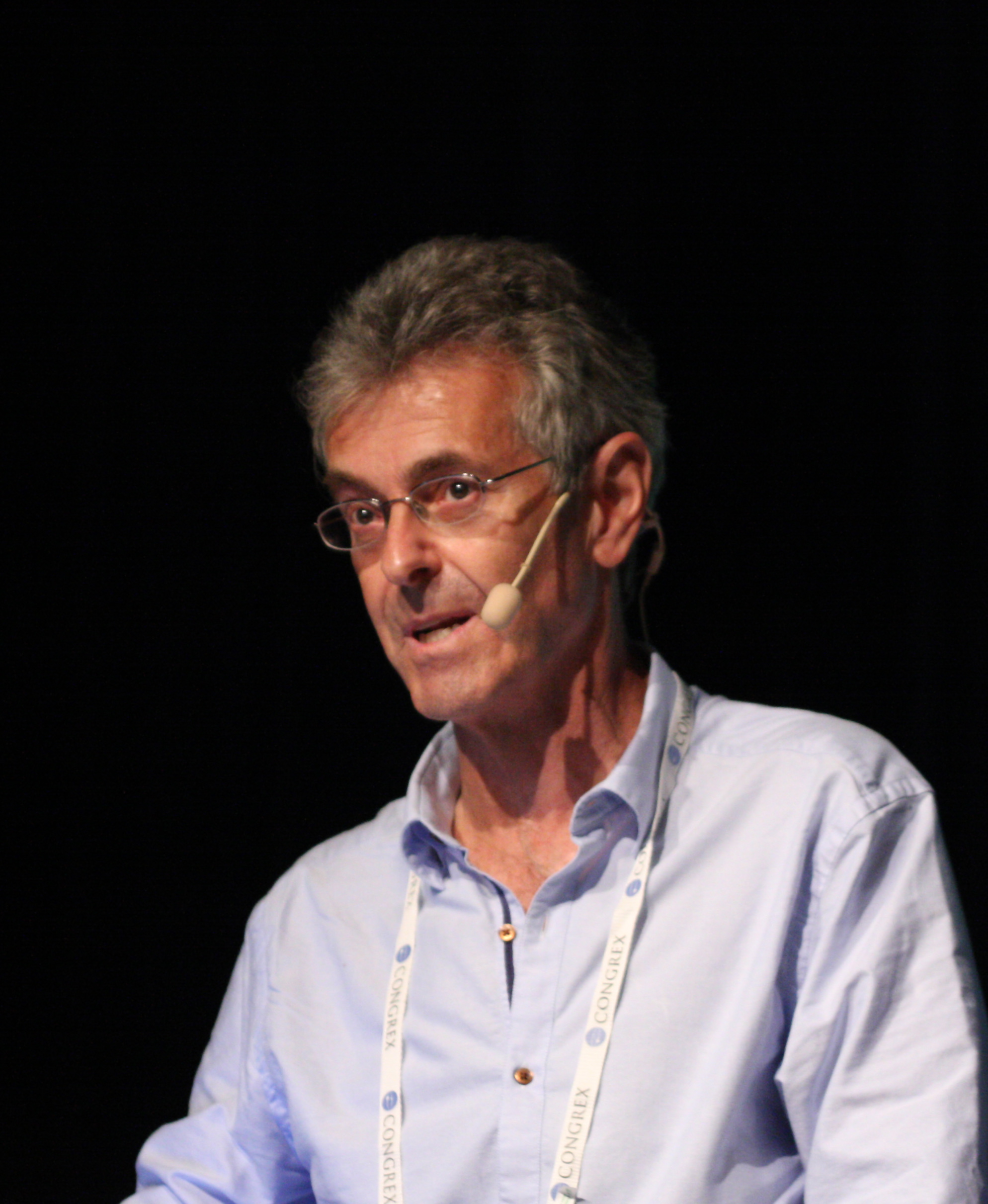 English ethologist and ecologist John Krebs as a Hamilton lecturer at the 14th Behavioral Ecology Congress in Lund, Sweden.